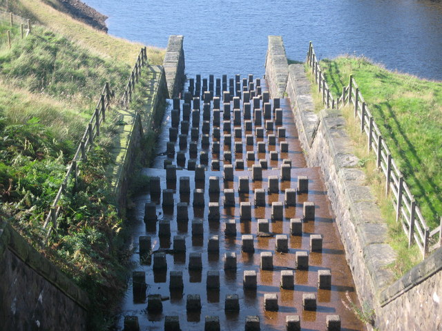 Yeoman Hey Reservoir spillway, Greenfield, Greater Manchester, England. Constructed in 1880 Yeoman Hey reservoir is the oldest of the four reservoirs located in the Dove Stone valley. All four reservoirs in the valley supply water to the outskirts of Manchester.